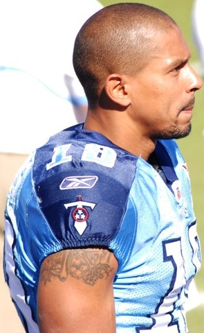 Tennessee Titans wide receiver Justin McCareins on the sideline during the November 2, 2008 game against the Green Bay Packers at LP Field.